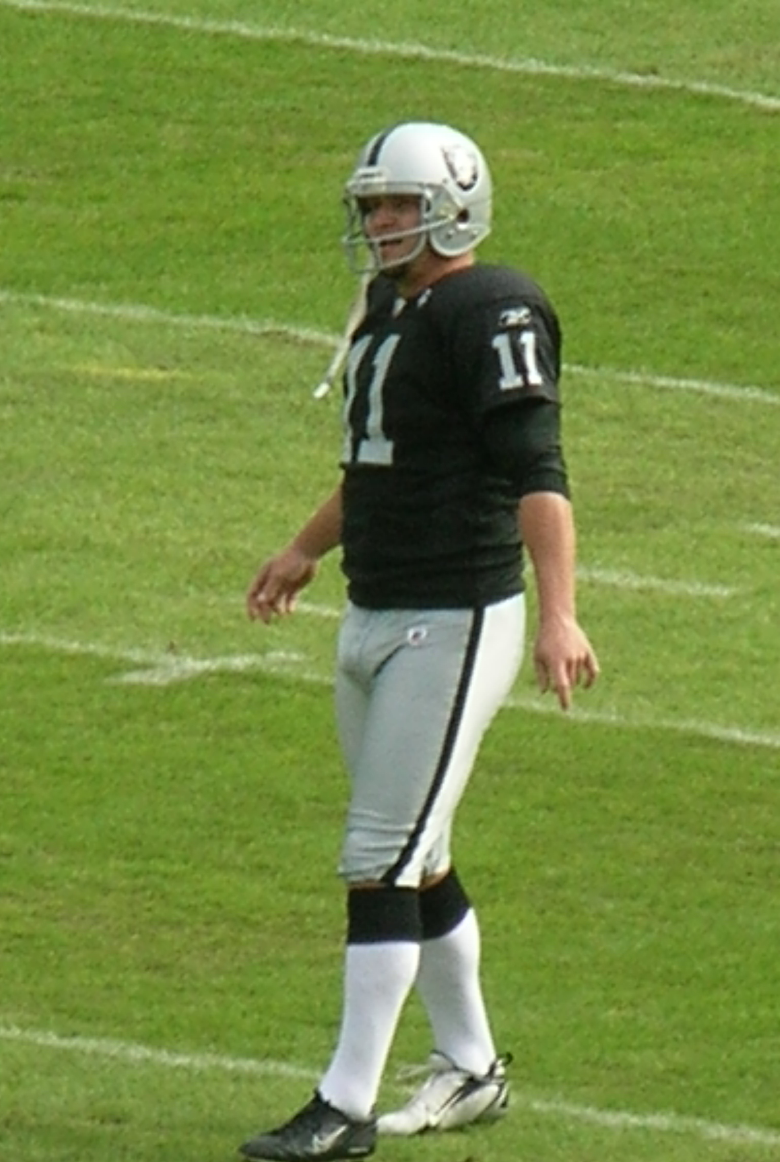 Oakland Raiders kicker Sebastian Janikowski warming up prior to a home game against the Atlanta Falcons. The Falcons won 24-0.